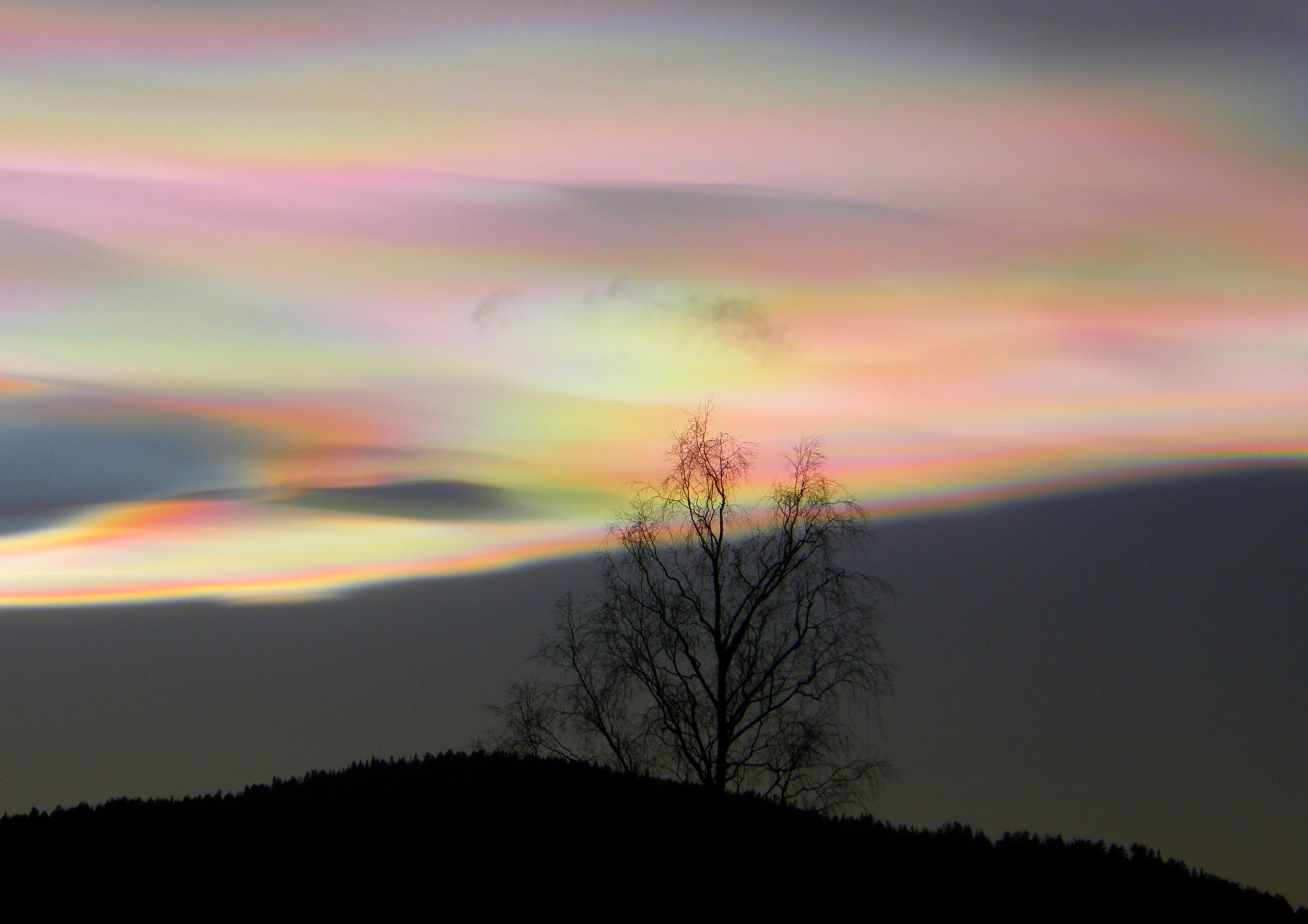 Polar stratospheric cloud over Asker, Norway.